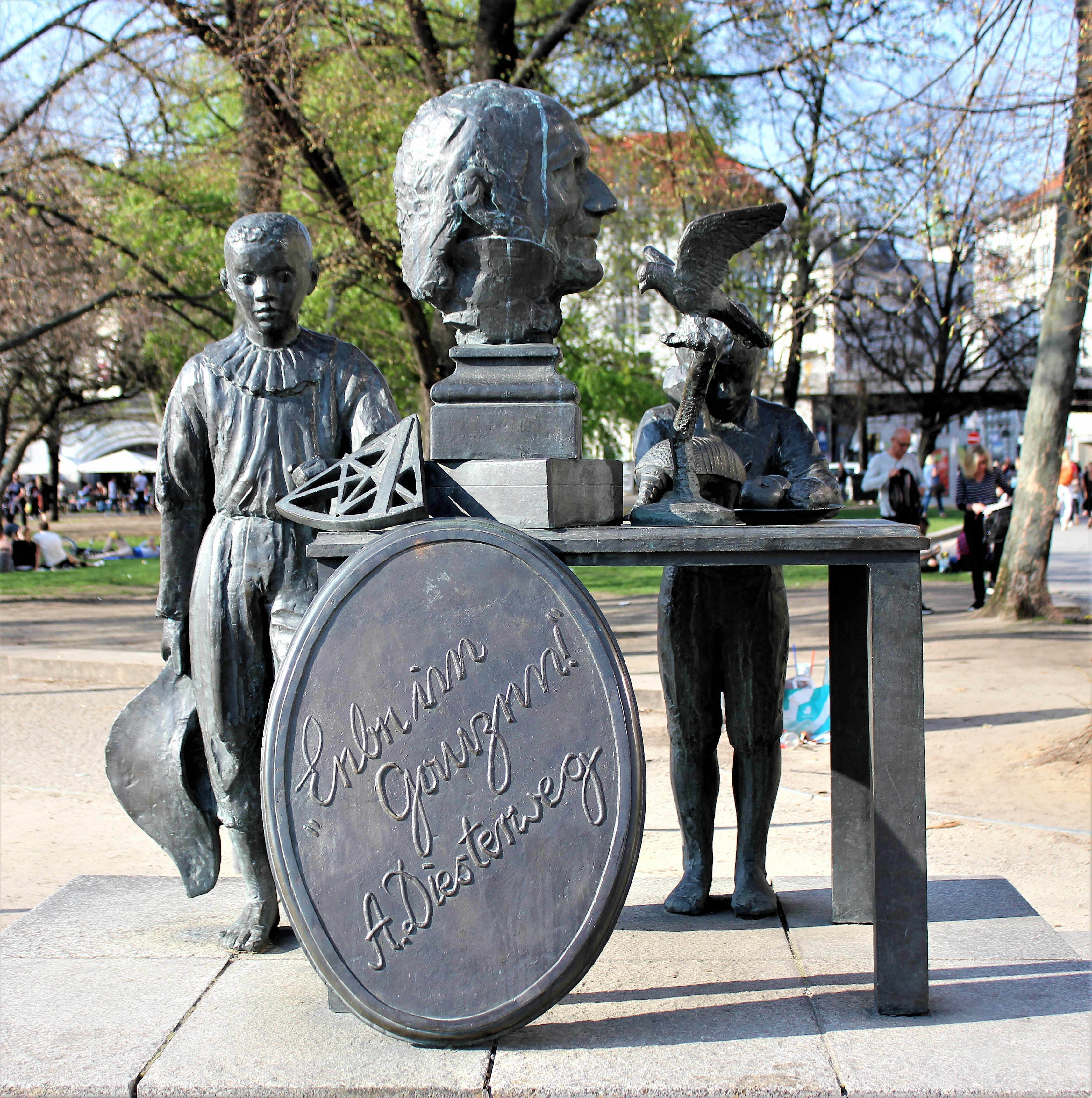 Bronze sculpture, memorial for German teacher, Friedrich Adolph Wilhelm Diesterweg (1790-1866), by sculptor, Robert Metzkes, Berlin-Mitte